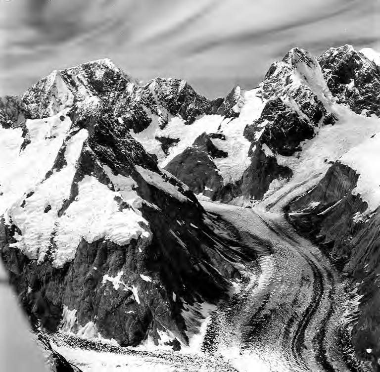 Johns Hopkins Glacier, Mount Lituya and Mount Salisbury, tidewater glacier and hanging glaciers, August 27, 1969